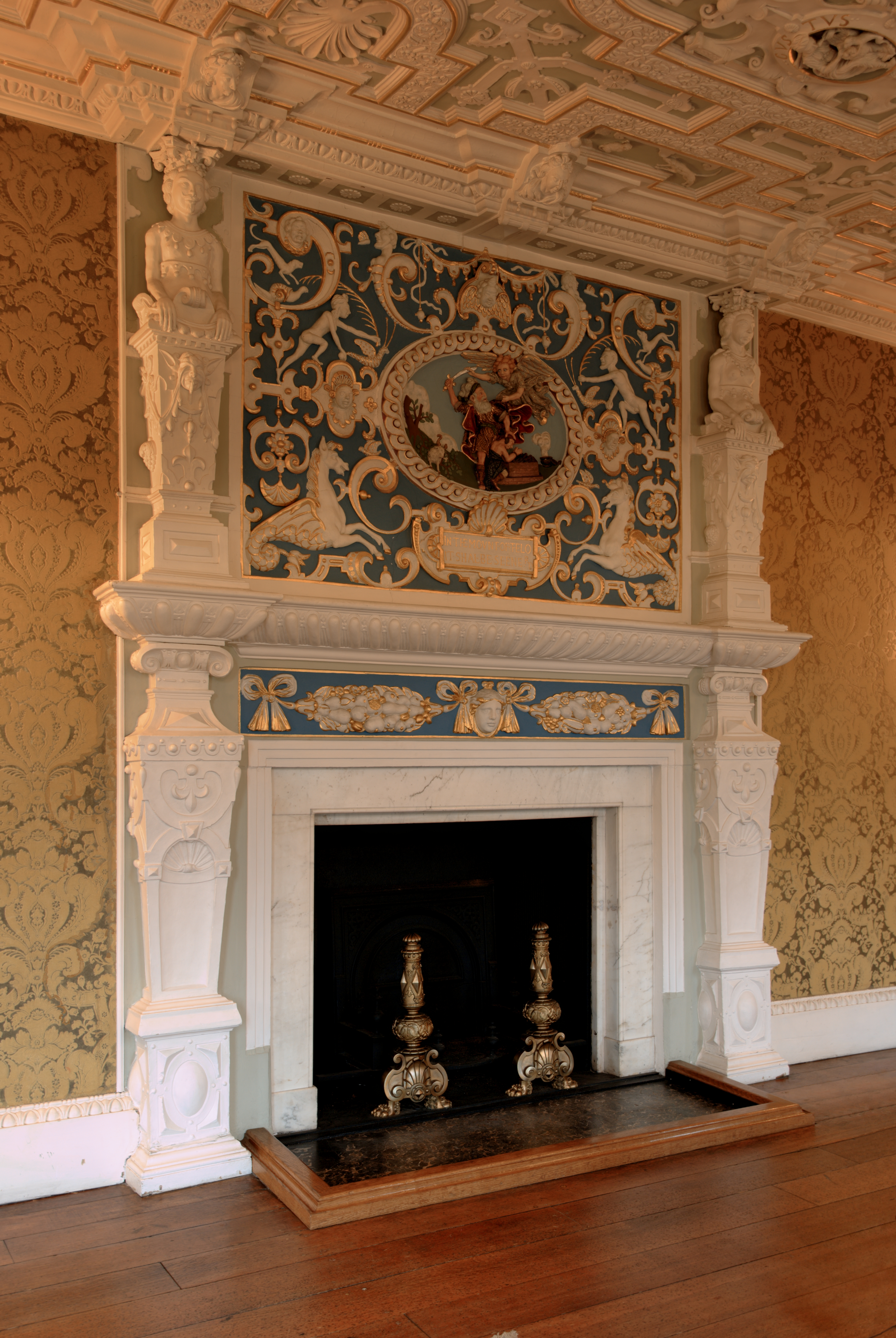 This Jacobean fireplace is situated in the State Drawing Room of Boston Manor House, Boston Manor Road, Brentford, TW8 9JX. United Kingdom. Tel: +44 020 8583 4463. Building currently own by the London Borough of Hounslow.